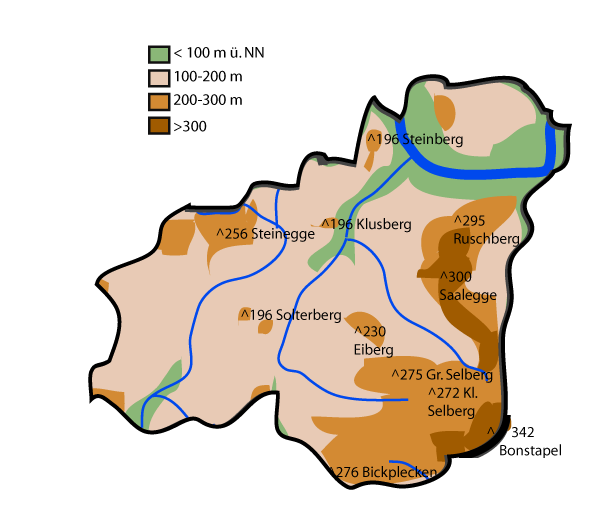 Maps of the district of Herford (Germany) series. Shows various kinds of information including topographical, demographical, and use of land information for all communities of Kreis Herford and the district of Herford itstelf.